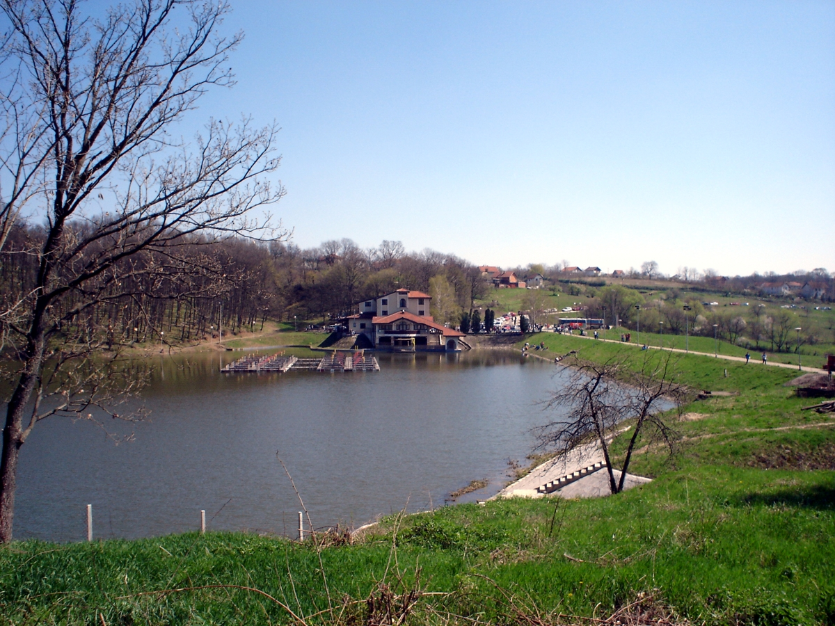 Lake Kudreč in Smederevska Palanka,Serbia.